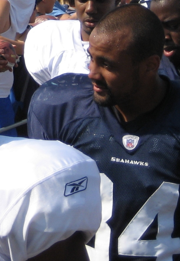 Picture of Seahawks players walking a gauntlet of fans at Eastern Washington University, Cheney Washington, following the team scrimmage. #88 TE, Itula Milli, #84 WR, Bobby Engram